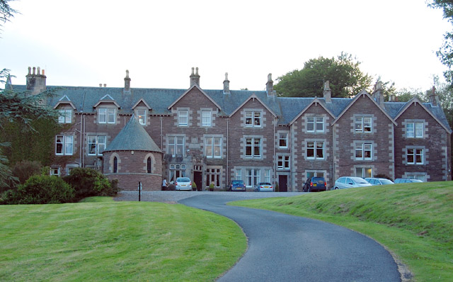 Cromlix House Hotel The main house on the Cromlix estate is now a country house hotel.